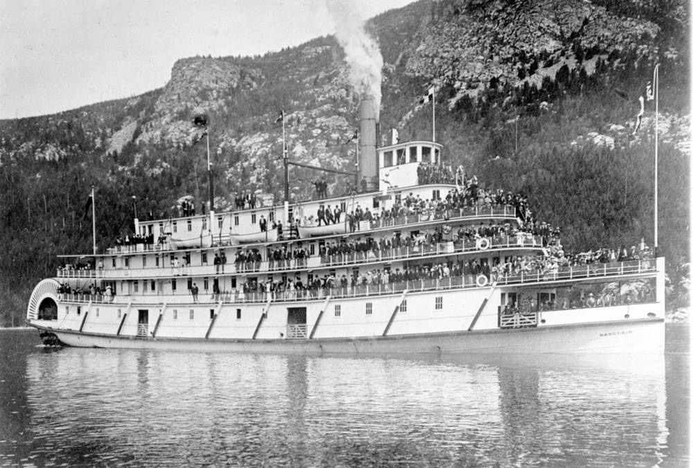 Nasookin maiden voyage, from Nelson to Kaslo BC.